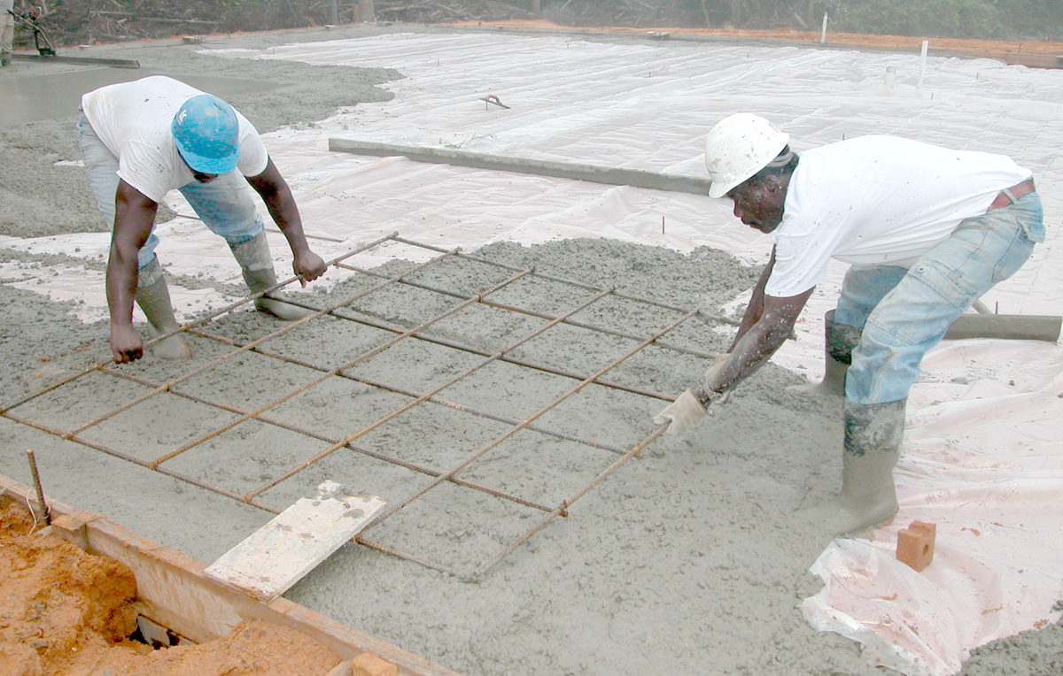 Installing rebar in a concrete floor during a pour Image copyleft: Image taken by me, released under GFDL, Pollinator 04:07, Dec 24, 2004 (UTC)